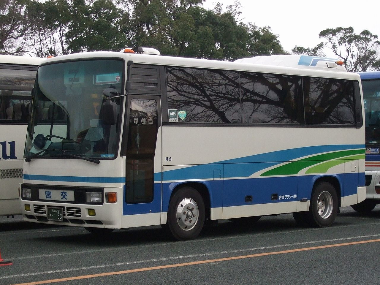 Company:Miyakoh Taxi / Use:chartered bus / Car license:MZ22 A 93 / Chassis manufacturer:Hino Motors / Type:Hino Rainbow 7M / Coachbuilder:Hino Body / Location:Kumamoto Castle Ninomaru Parking Lot, Chuo Ward, Kumamoto City, Kumamoto, Japan.